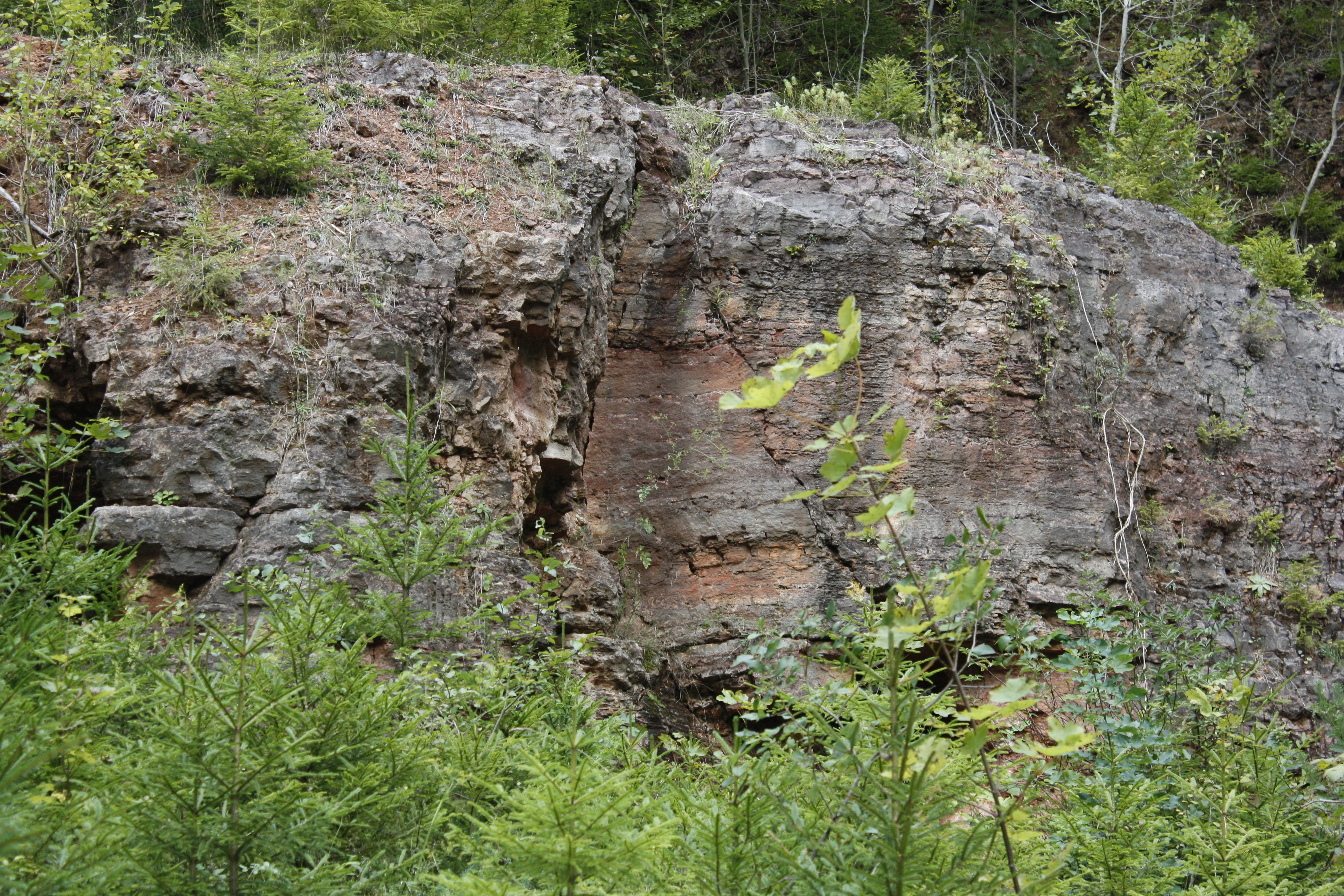 Red Stone in Riedöschingen, Germany. General view.